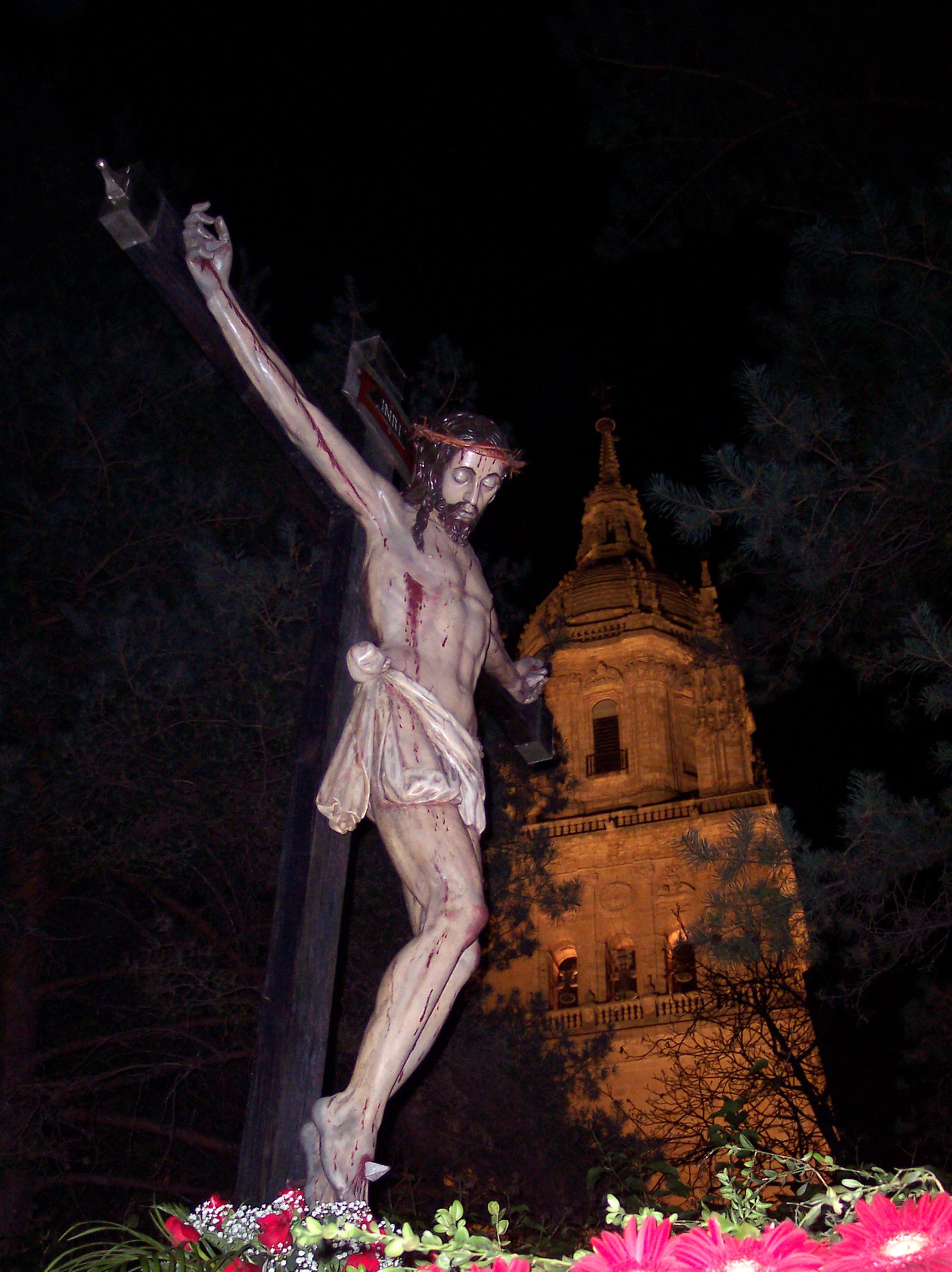 Christ of Love and Peace, Salamanca, Spain